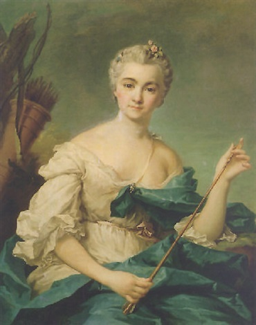 Portrait of Mlle de Beaujolais, Philippine Élisabeth d'Orléans (1714-1734)